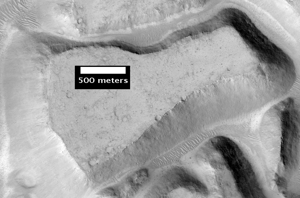 Ister Chaos Close-up, as seen by hirise. Location is 12.6 N and 303.1 E.